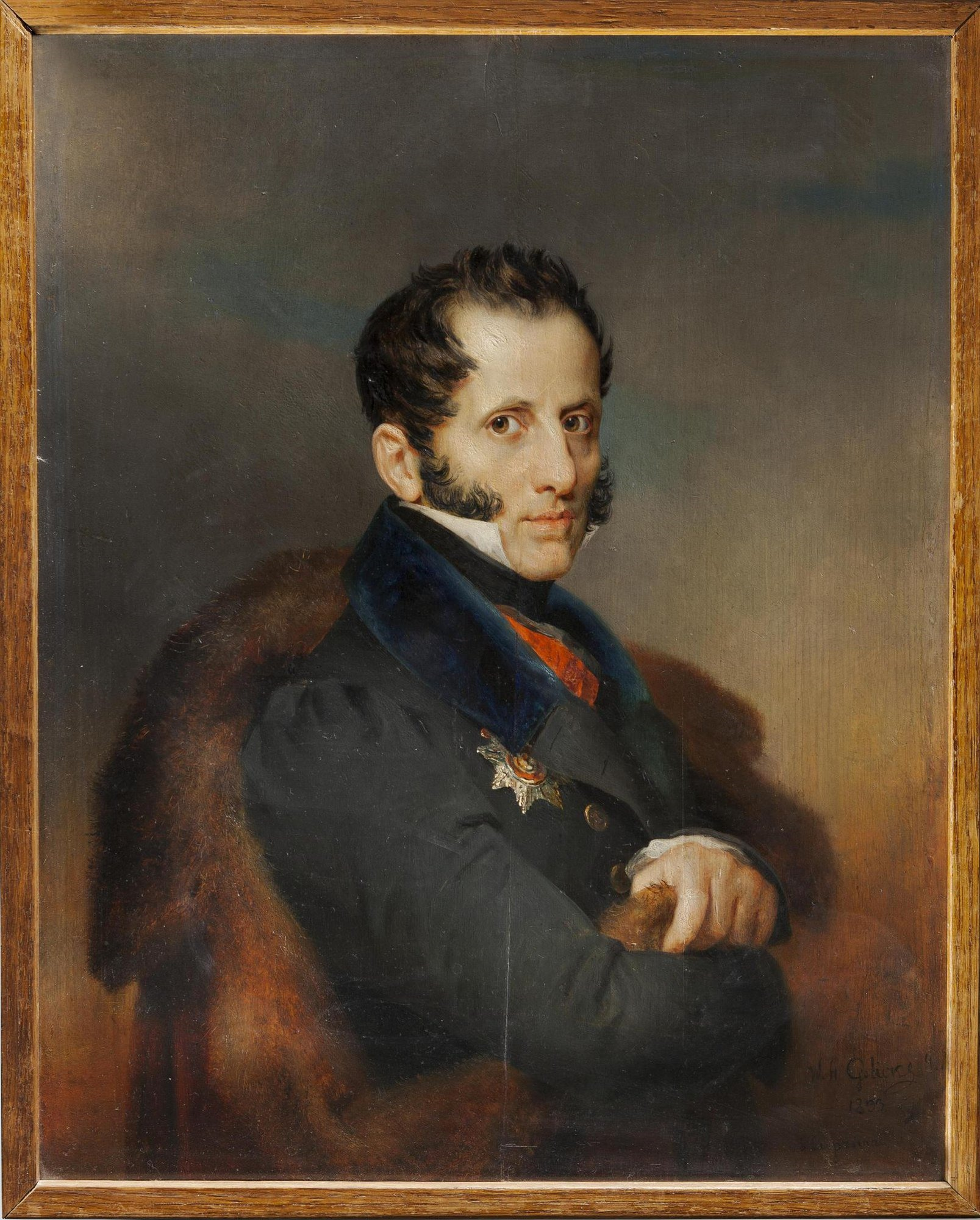 Golike Vasily. Portrait of Count Sergey Uvarov (1833)